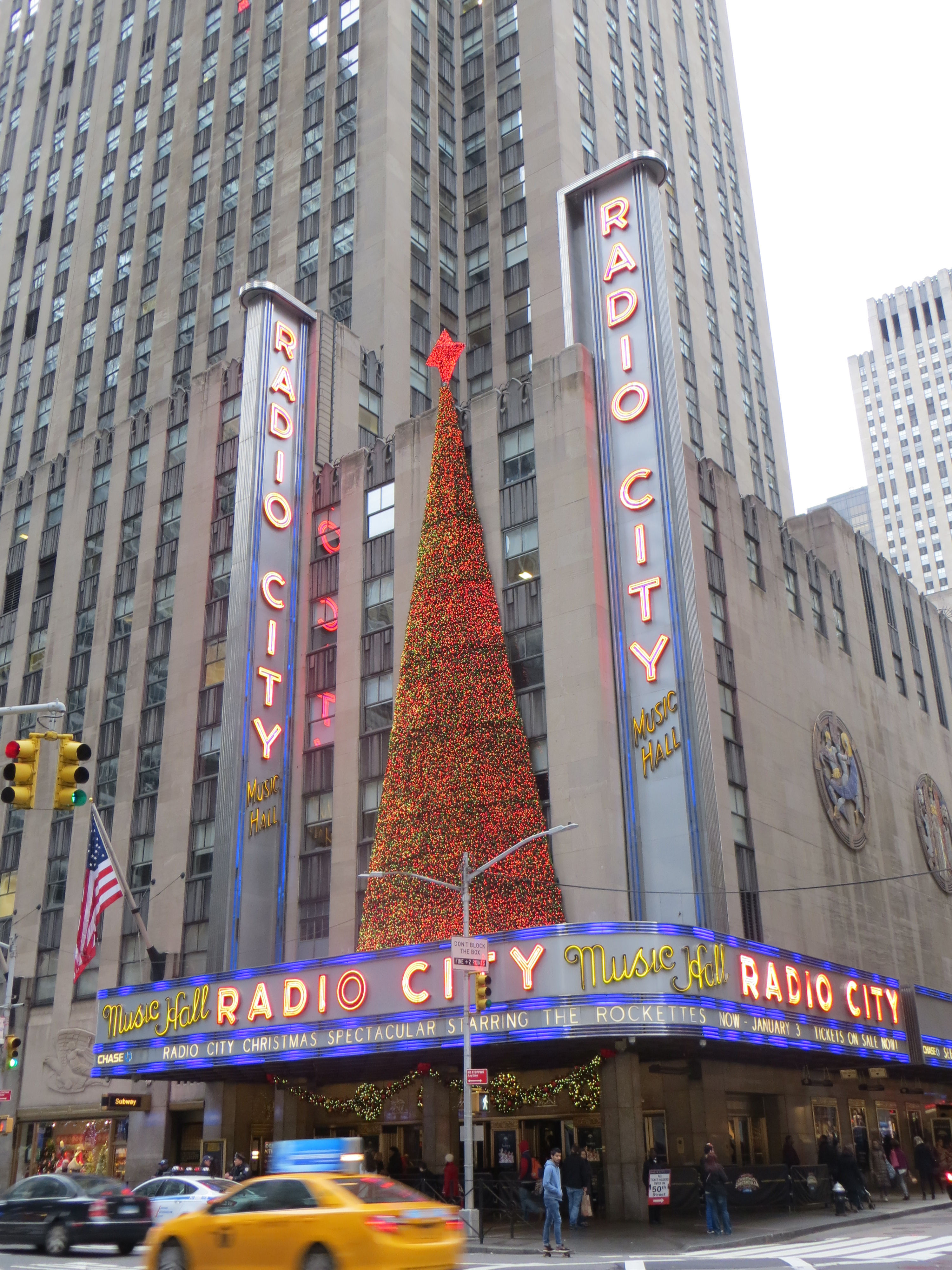 Radio City